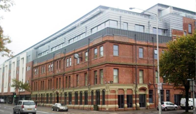 View of the redeveloped Ormeau Bakery site, Ormeau Road, Belfast, Northern Ireland.